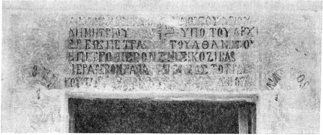 Inscription in Saint Demtrius Church in Agios Dimitrios 1887